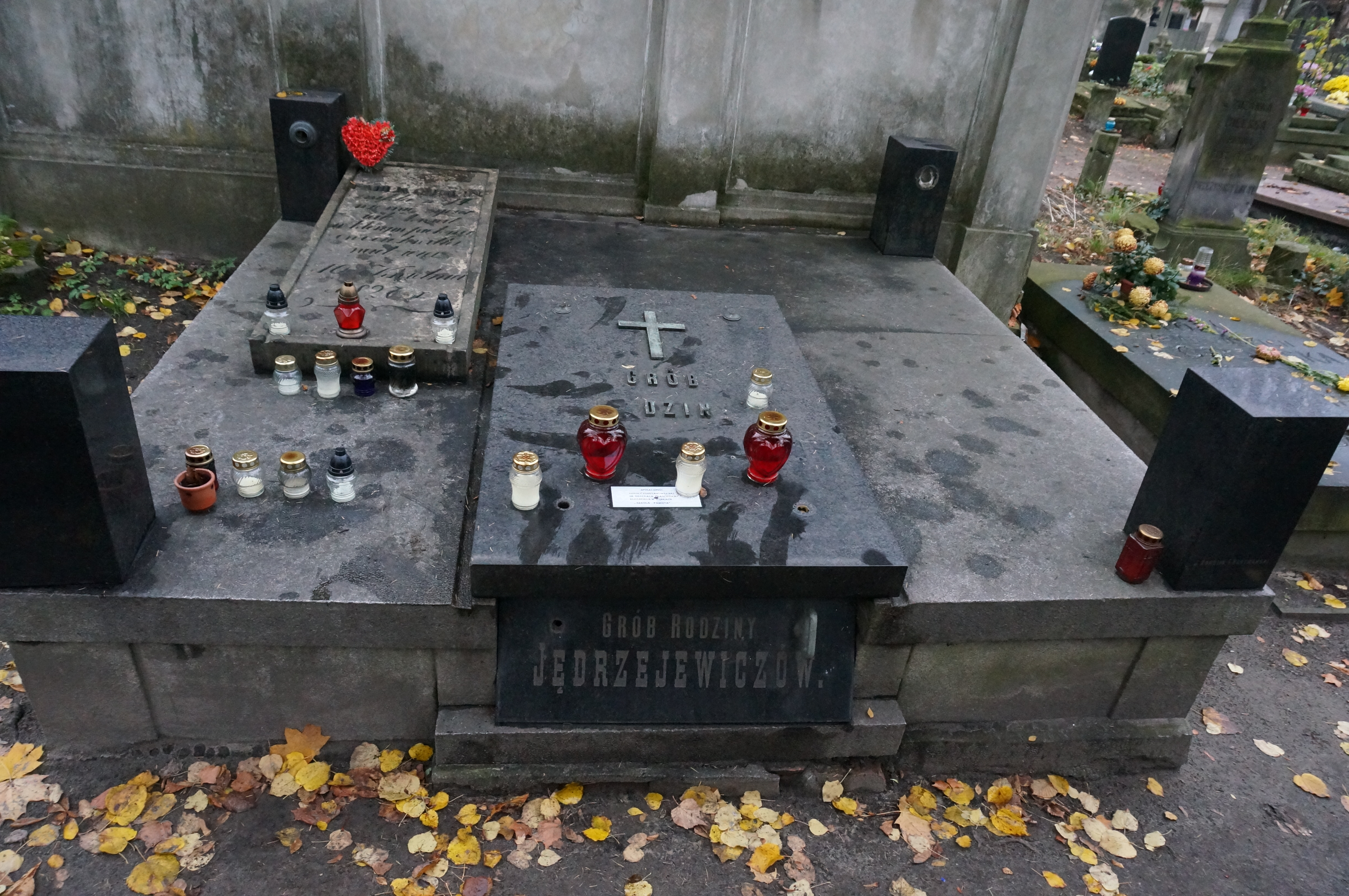 The grave of Józef Kalasanty Jędrzejewicz at the Powązki Cemetery (section 175, row 2, grave 7-8)